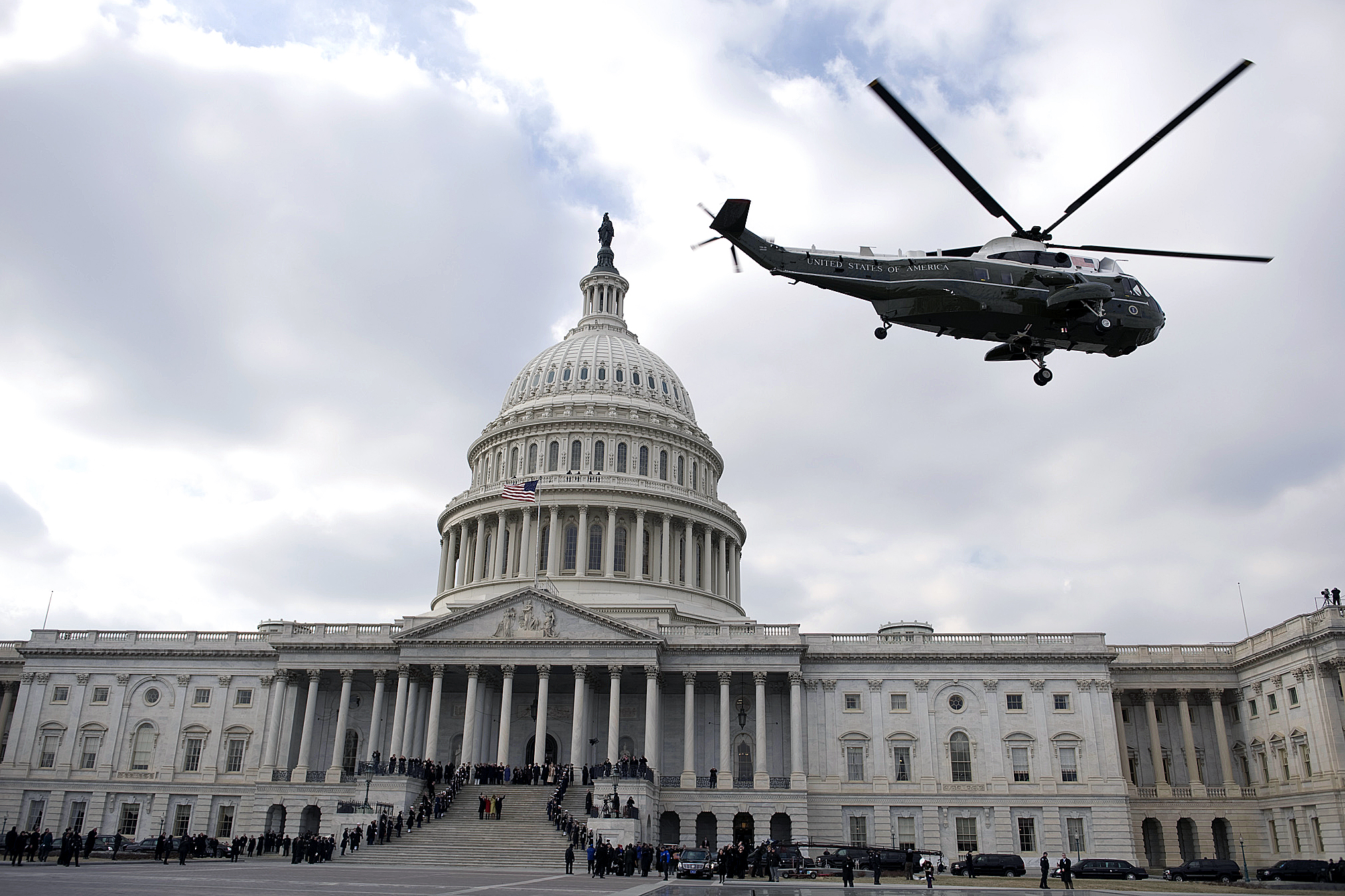 A U.S. Marine Corps helicopter carrying 43rd President George W. Bush departs the U.S. Capitol Building at the conclusion of inaugural ceremonies for 44th President Barack Obama, Washington, D.C., Jan. 20, 2009.